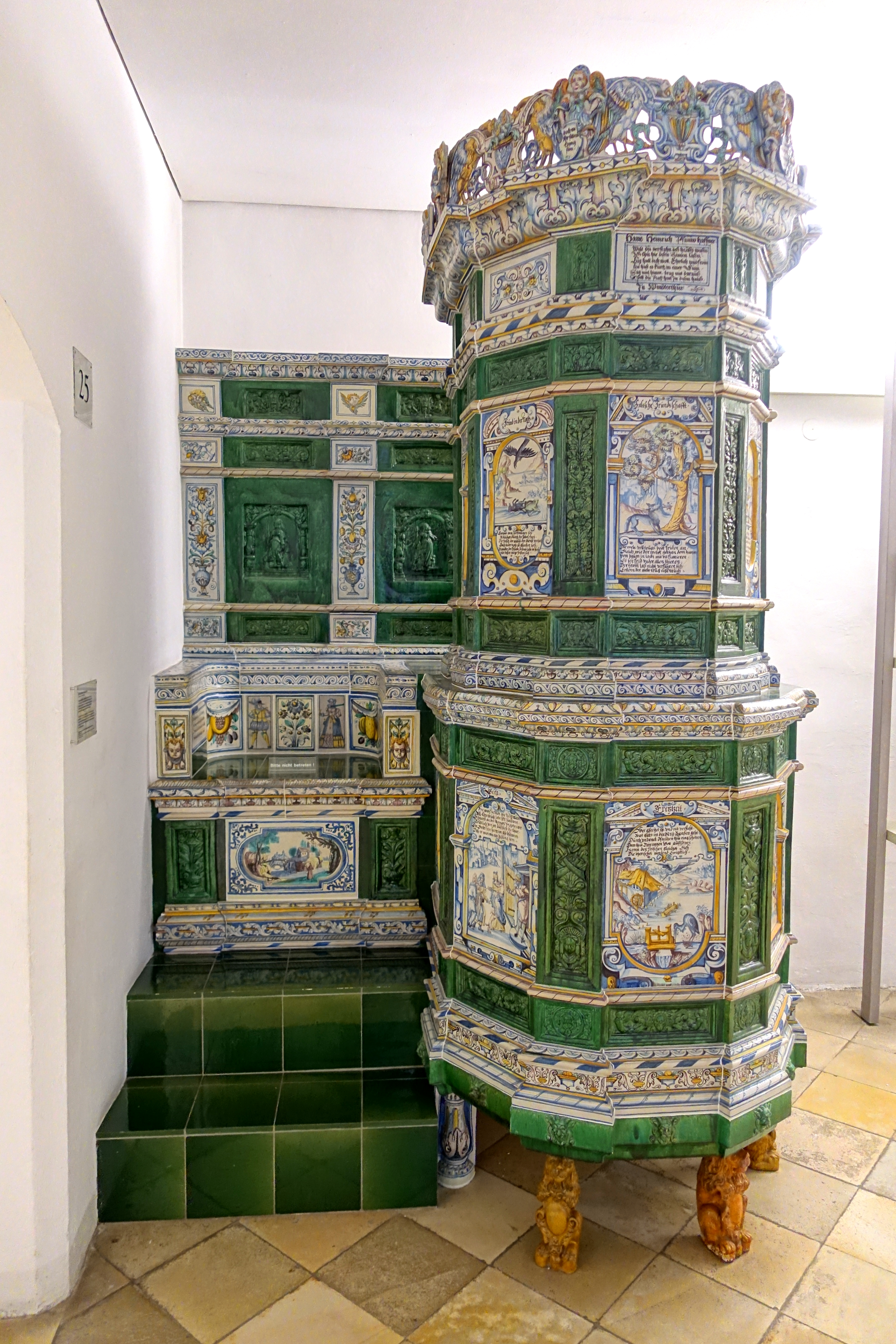 Exhibit in the Germanisches Nationalmuseum - Nuremberg, Germany.